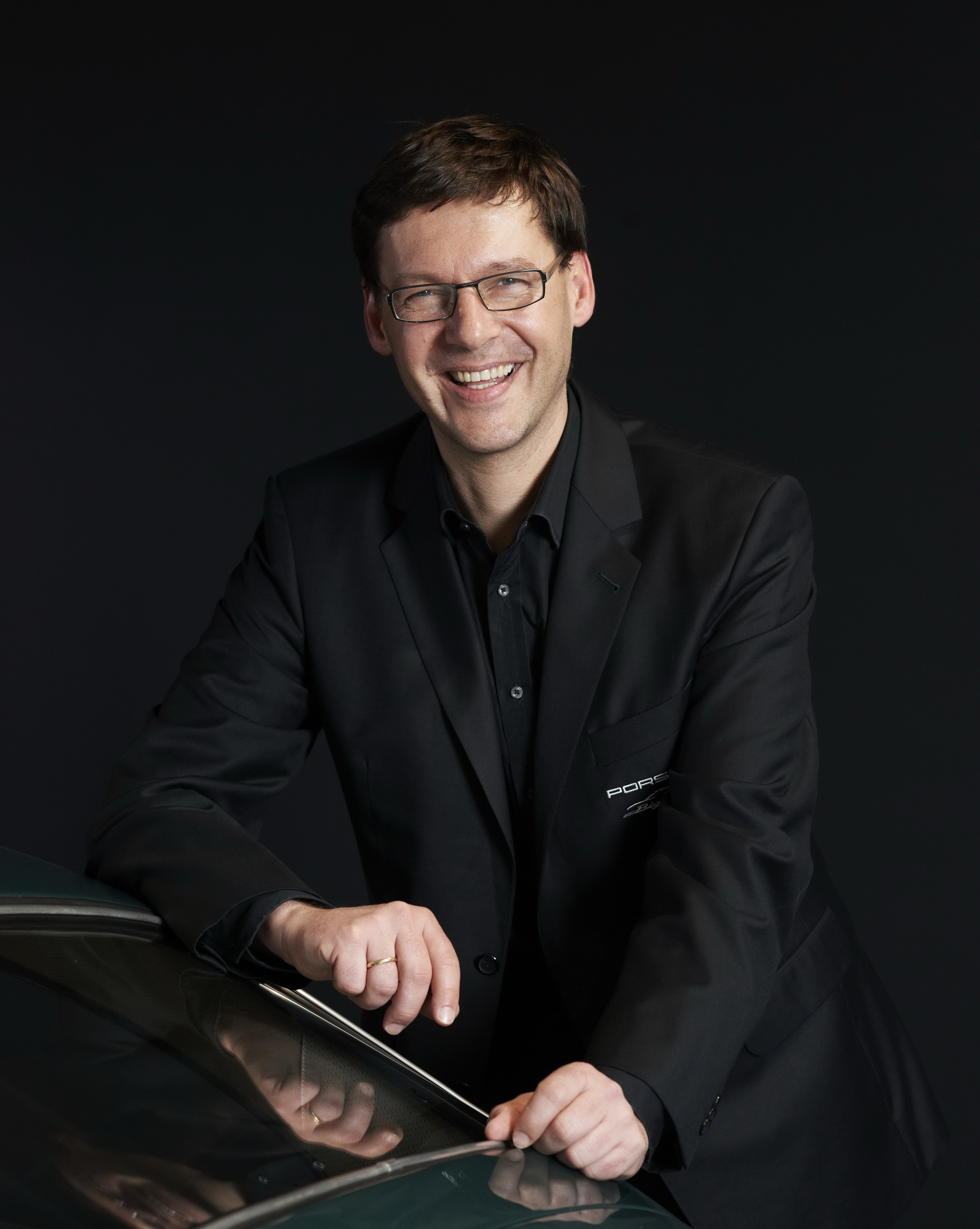 Mr. Meinhard Jenne, drummer / musician